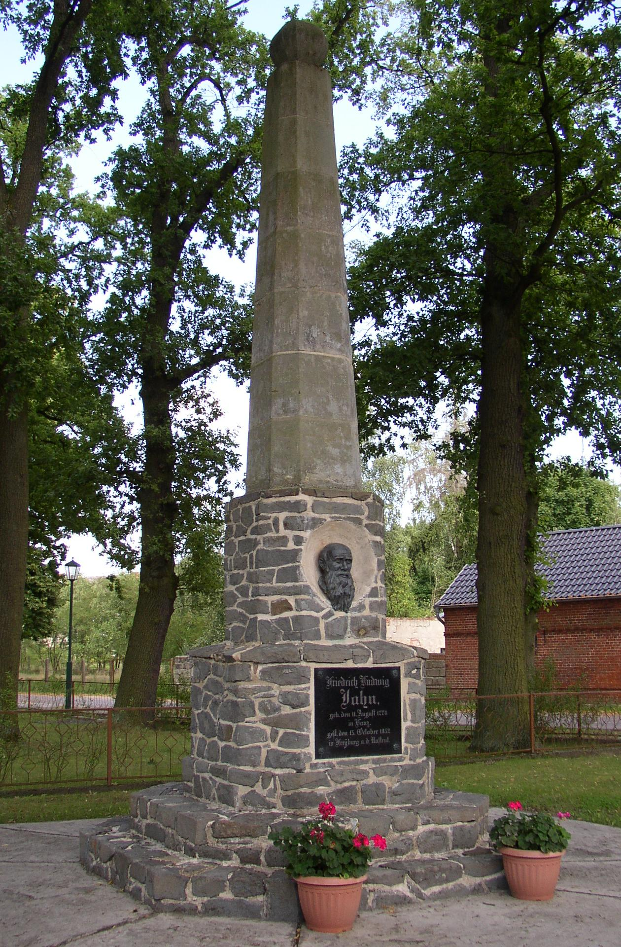 Memorial for Friedrich Ludwig Jahn in Lanz in Brandenburg, Germany